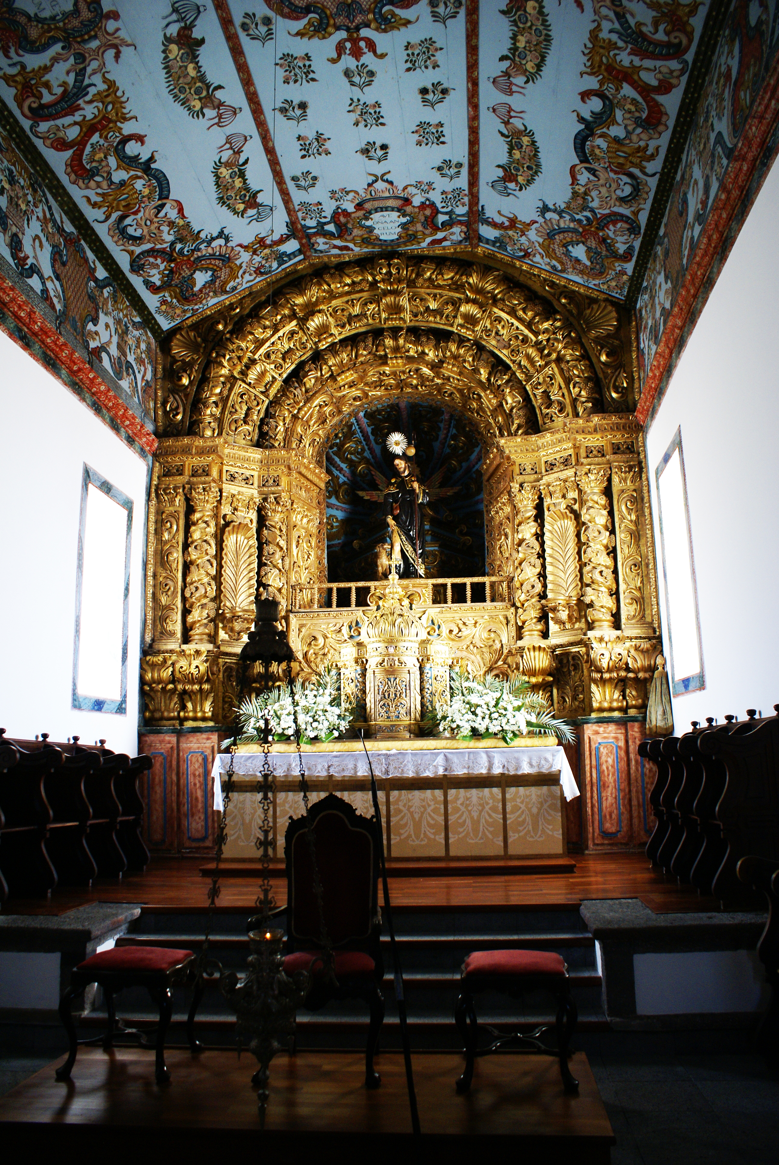 Main alter of the Church of São Roque, São Roque, Pico (Azores), Portugal